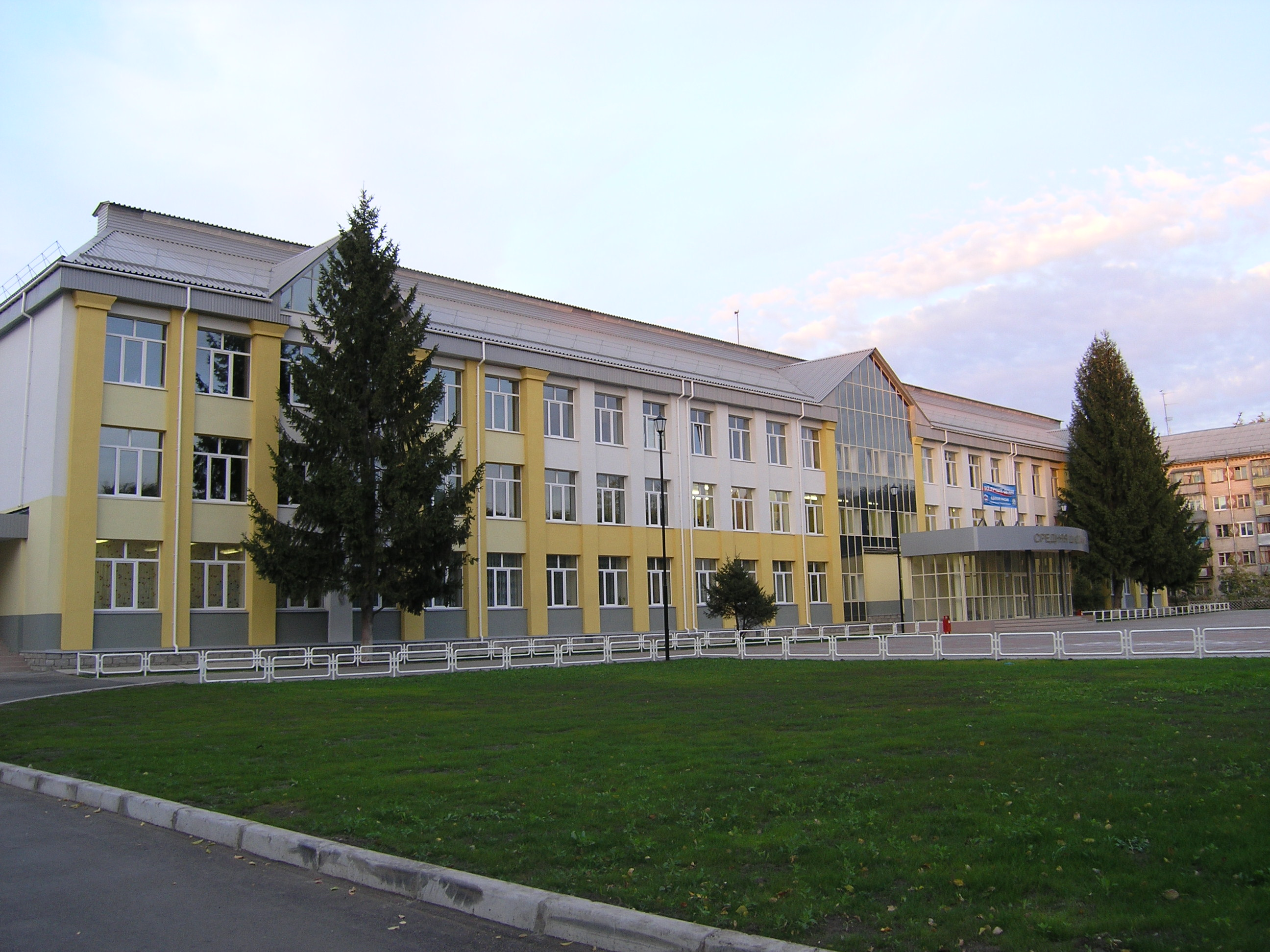 School 13 after reconstruction, Togliatti, Russia